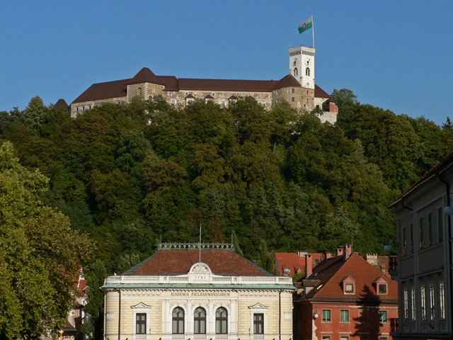 Ljubljana Castle